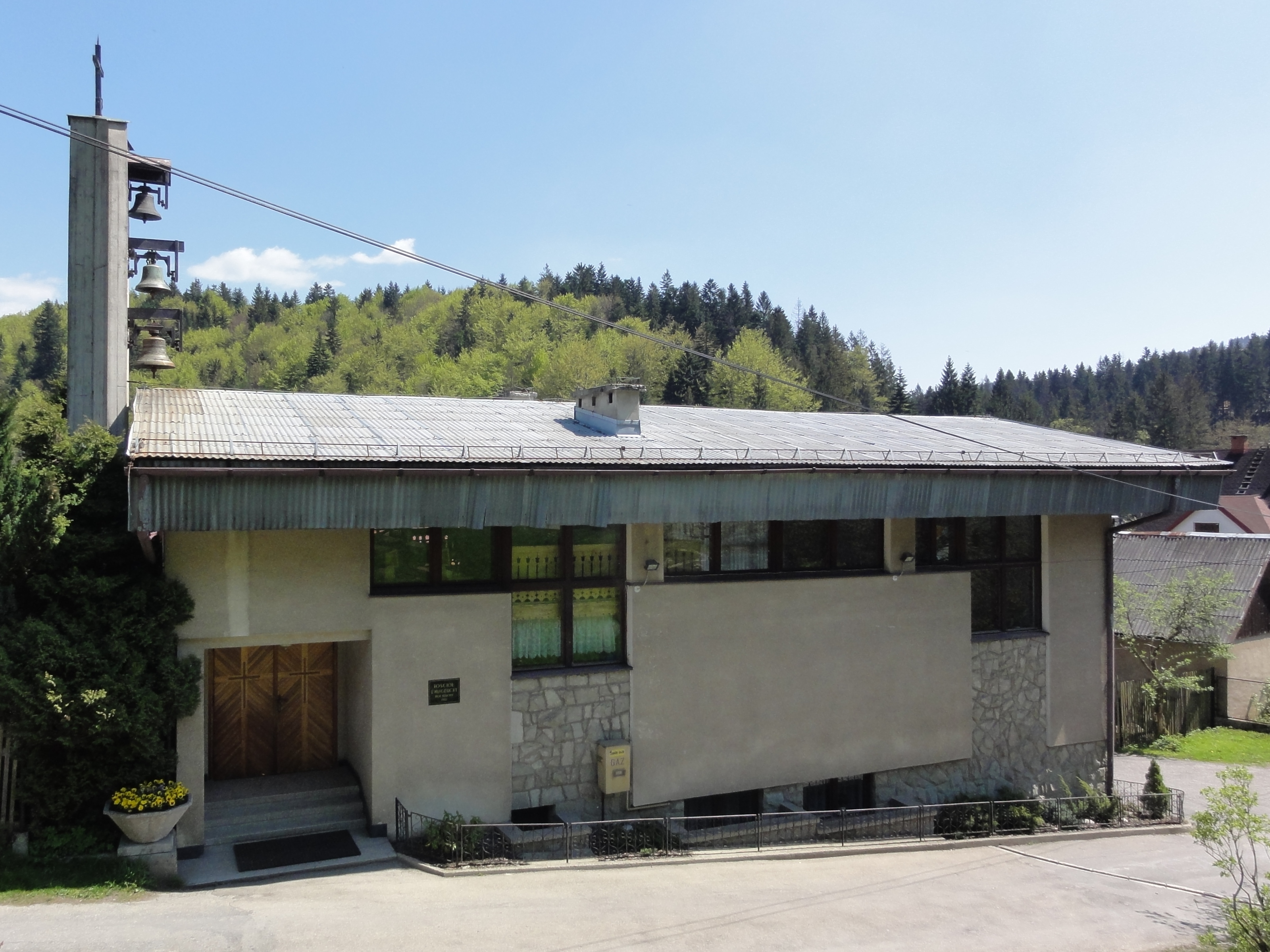 Lutheran church in Wisła-Głębce